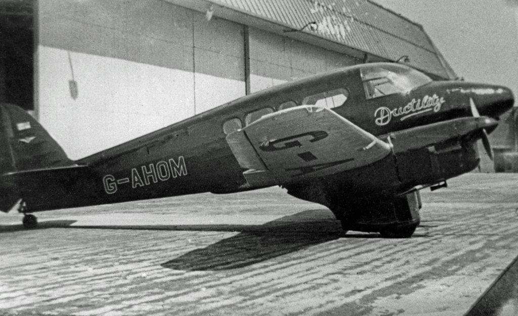 Percival Q.6 Petrel G-AHOM of Ductile Steels at Manchester Ringway Airport in 1949